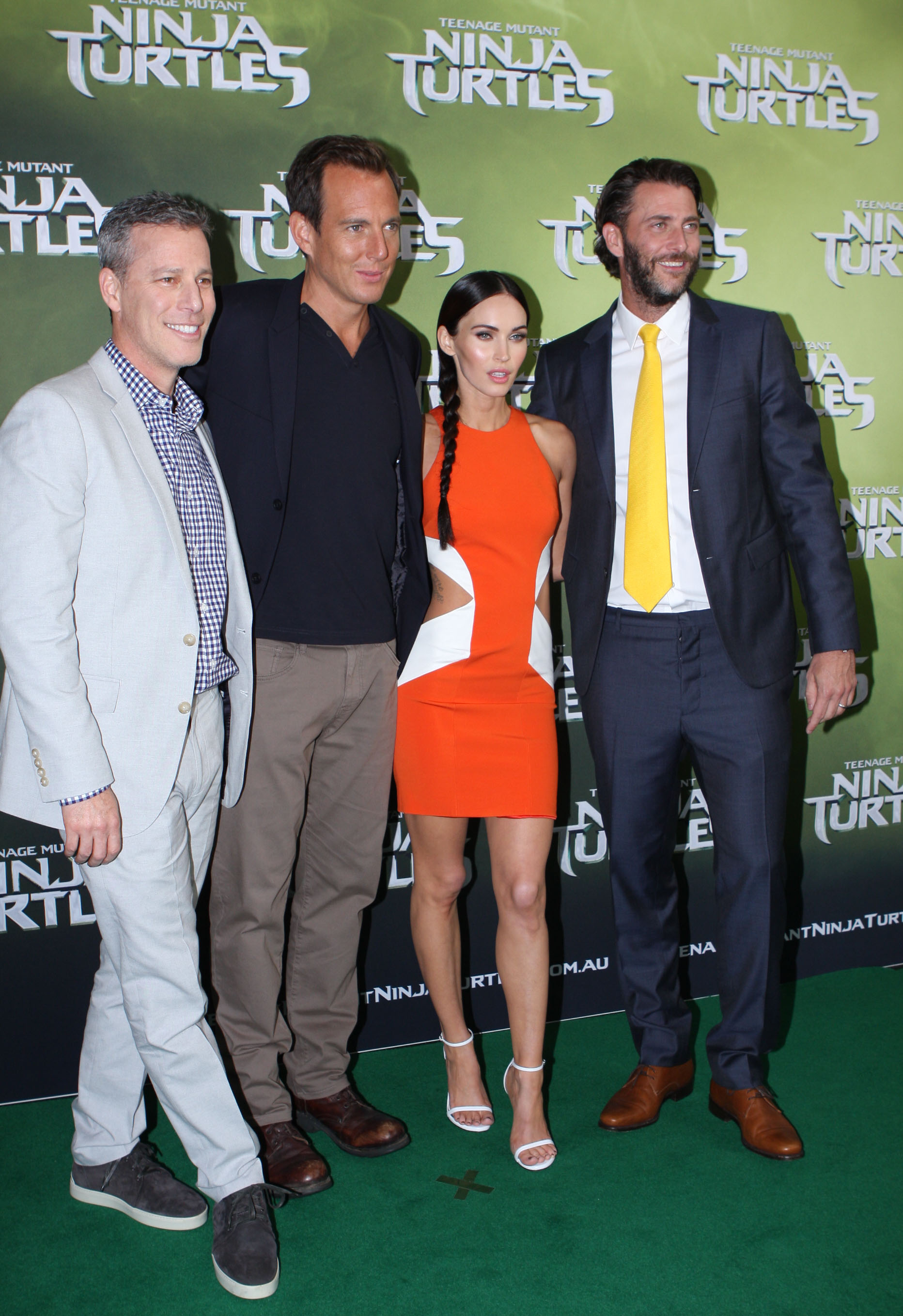 L to R: Brad Fuller, Will Arnett, Megan Fox and Andrew Form, Sept. 2014